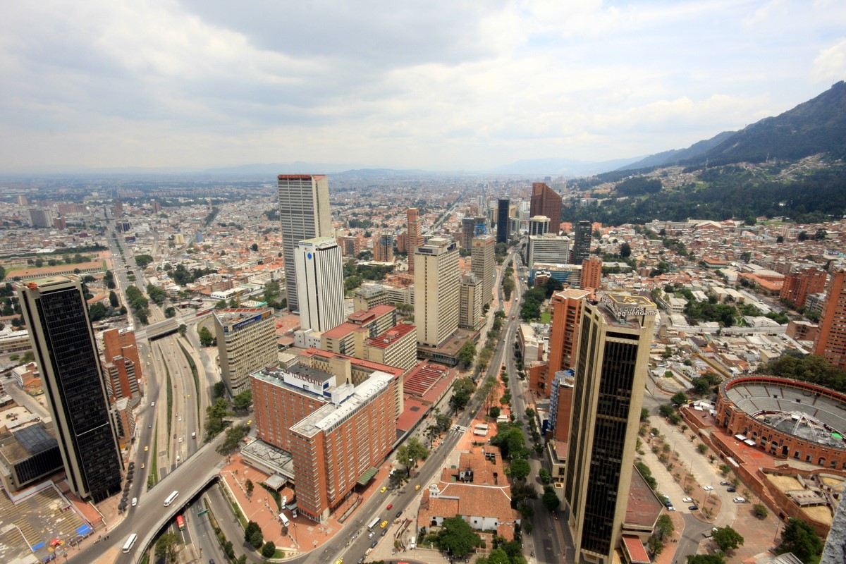 Bogotá Downtown. 7th Avenue.